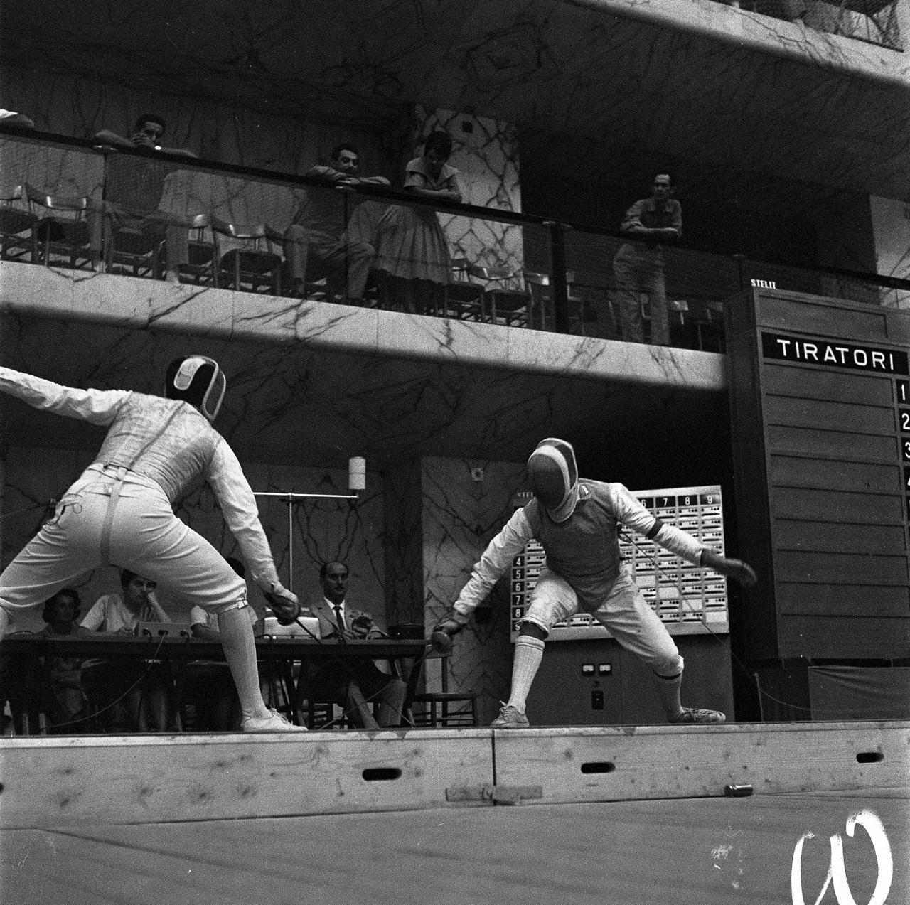 Fencing at the 17th Summer Olympics. Italian foil fencer Luigi Carpaneda (right) vs the American Gene Glazer (left) during the Quarter Final of men's foil torunament at Palazzo dei Congressi, used as sports venue during the Olympics.